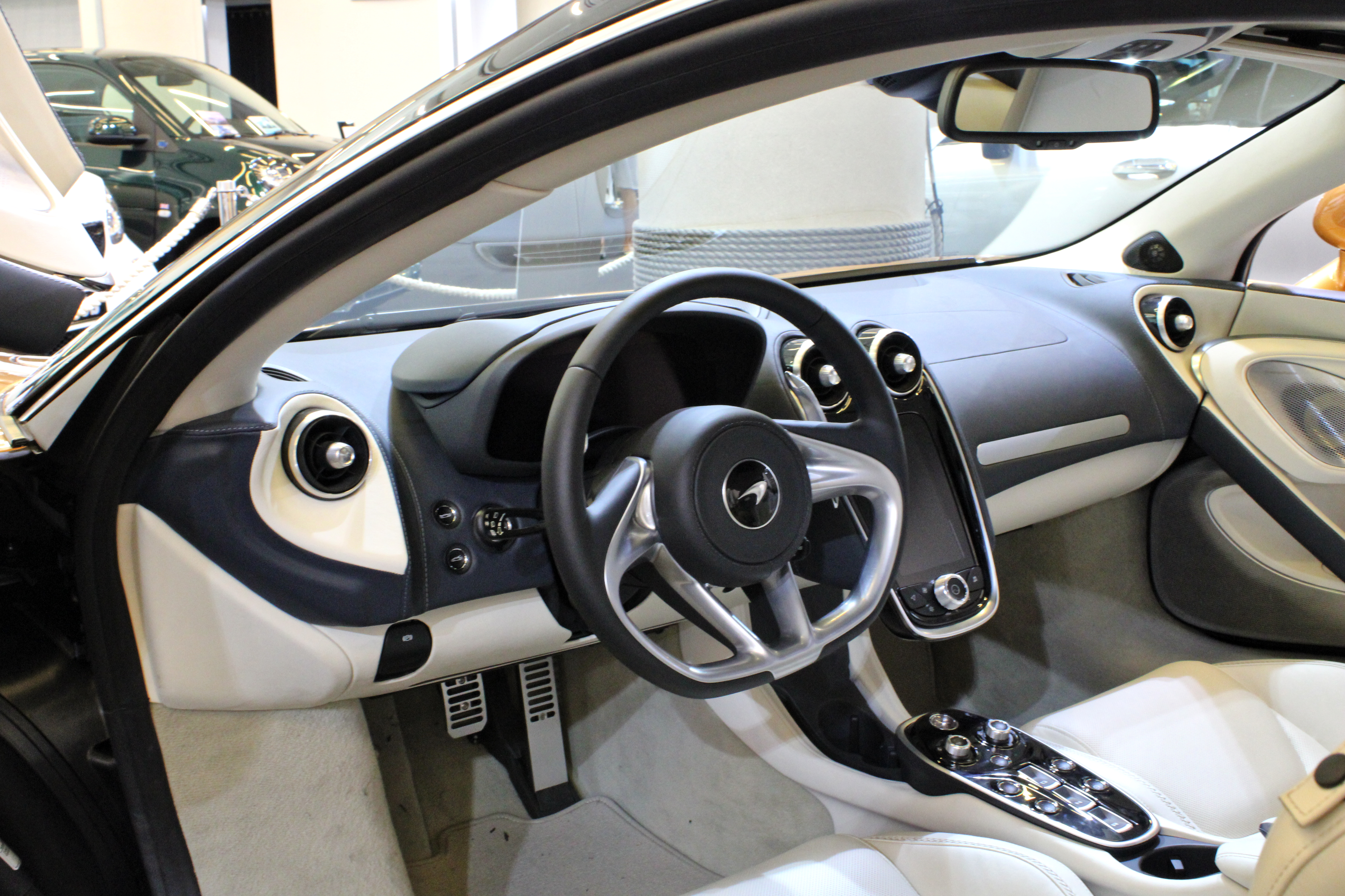 McLaren GT at Top Marques 2019